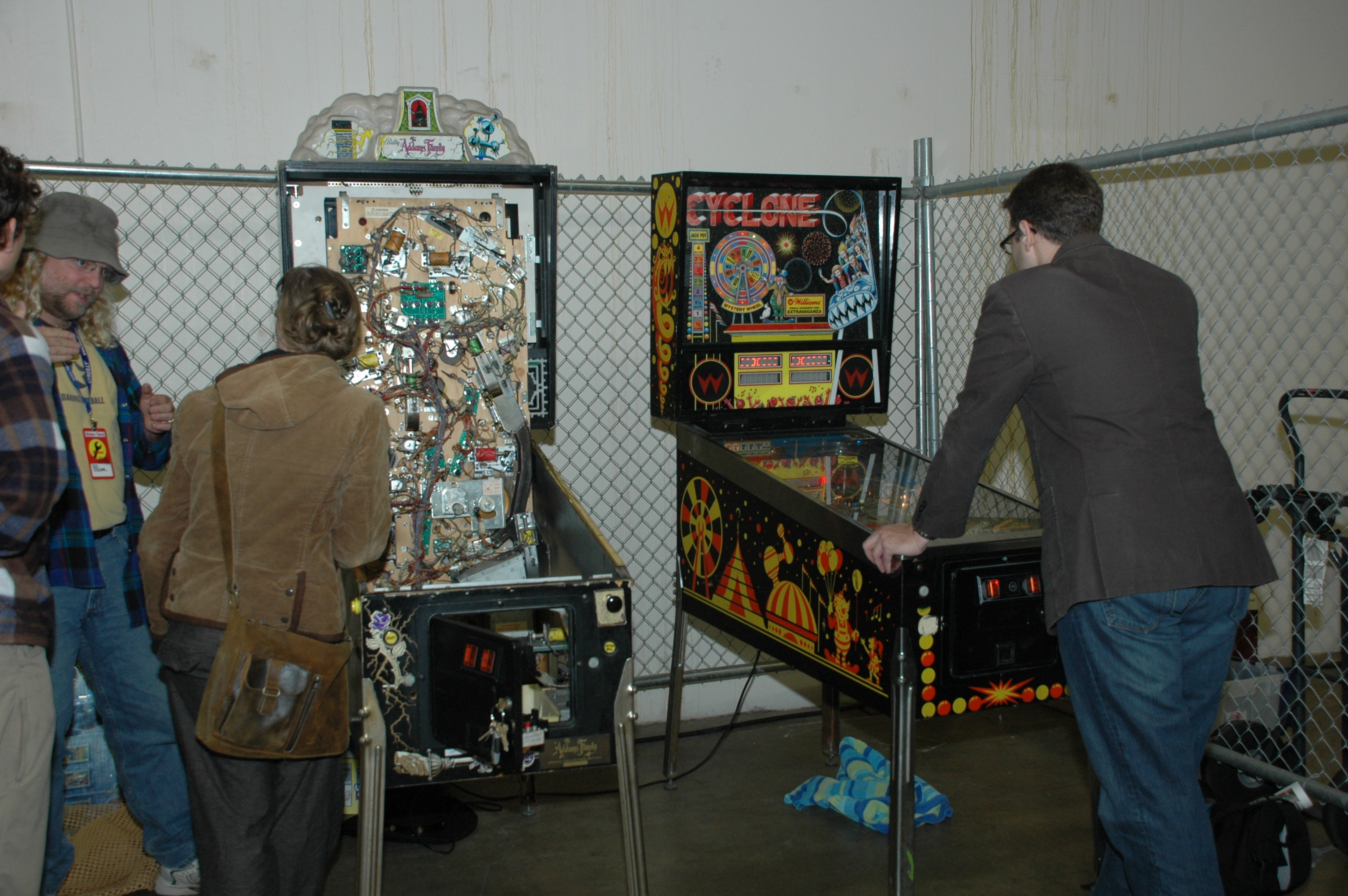 Maker Faire 2008, San Mateo